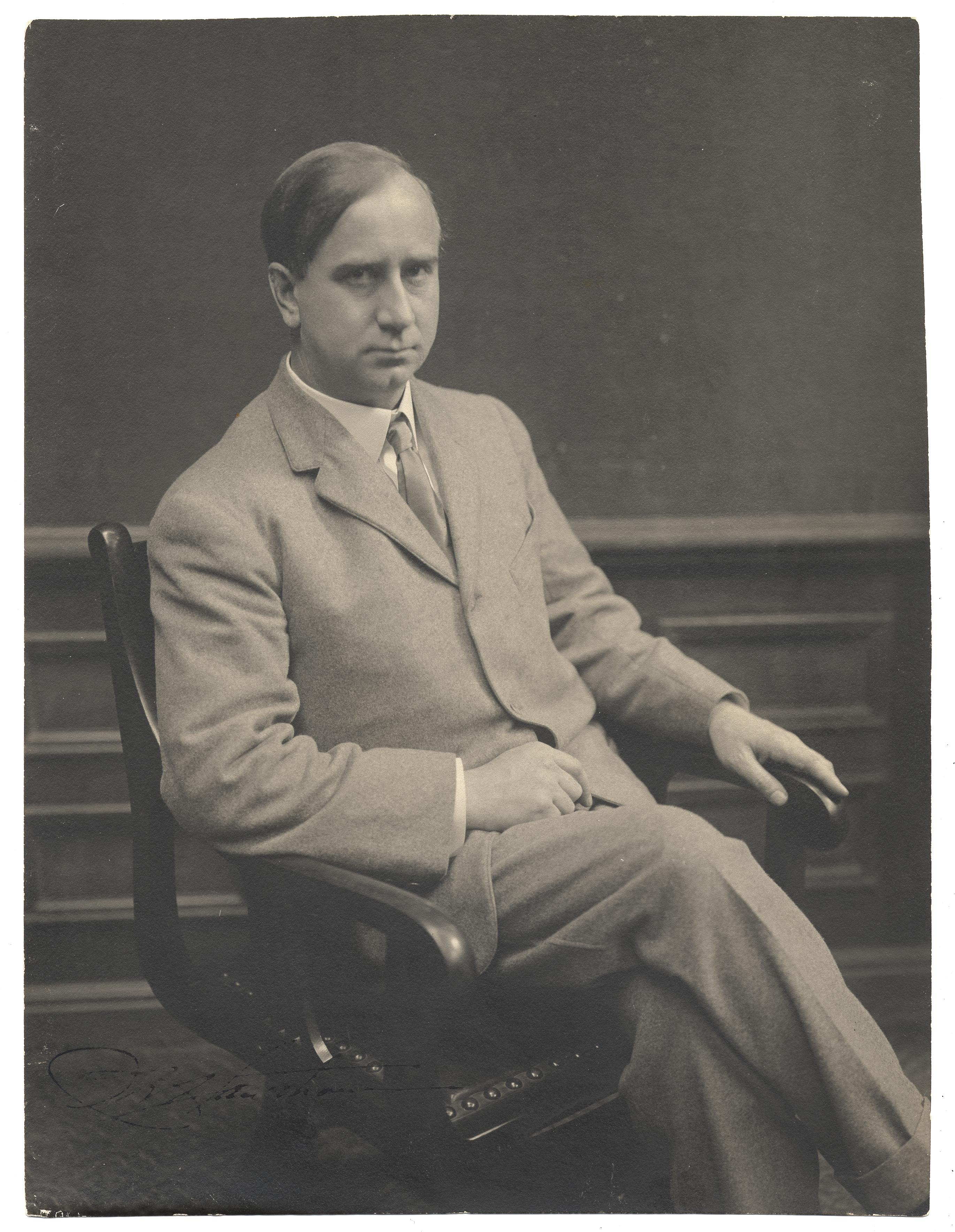 Charles Webster Hawthorne (January 8, 1872 – November 29, 1930) was a U S portrait painter: Portrait of Hawthorne seated in a chair. Inscription lower left: "Charles Hawthorne". Hawthorne, Charles Webster, 1870 or 1872-1930 or 1932 Creator/Photographer: Unidentified photographer Medium: Black and white photographic print Dimensions: 22 cm x 17 cm Date: c. 1910 Persistent URL: Repository: Archives of American Art Native nameArchives of American ArtParent institutionSmithsonian InstitutionLocationWashington, D.C.Coordinates38° 53′ 52.44″ N, 77° 01′ 21.72″ W Established1954Web page control : Q2860568 VIAF: 151134814 ISNI: 0000 0004 5897 2996 LCCN: n79065944 NLA: 35007823 GND: 1023549-8 WorldCat institution QS:P195,Q2860568 Collection: Macbeth Gallery Records, c. 1890-1964 Accession number: aaa_macbgall_4707